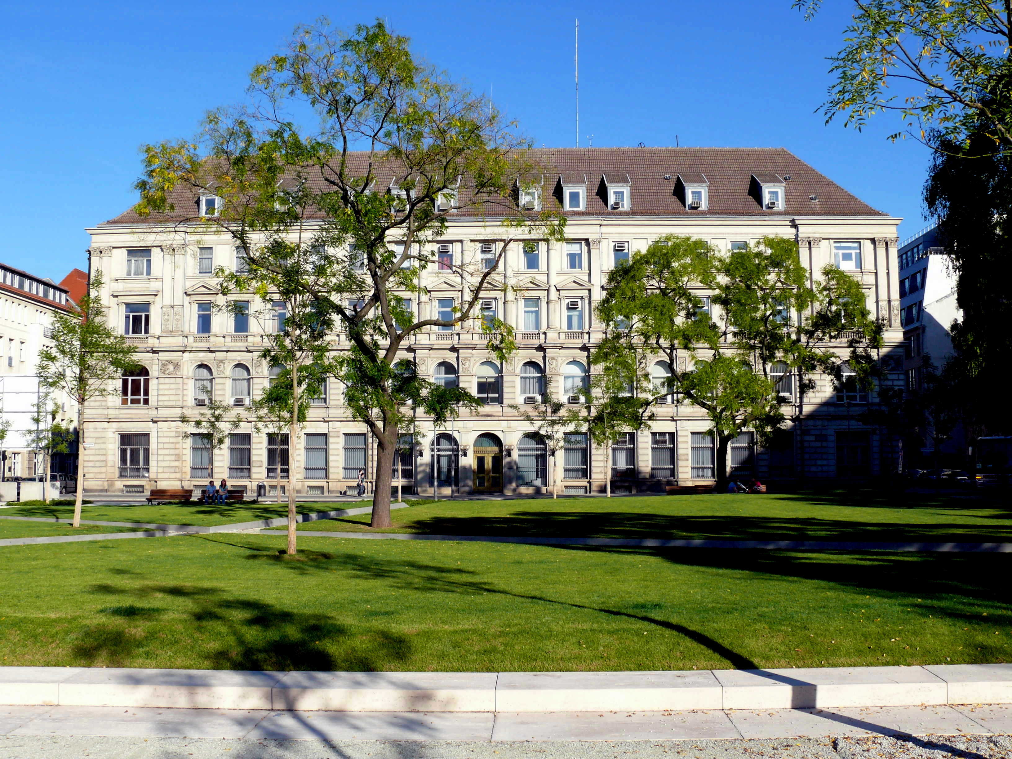 Berlin-Mitte Neustädtischer Kirchplatz